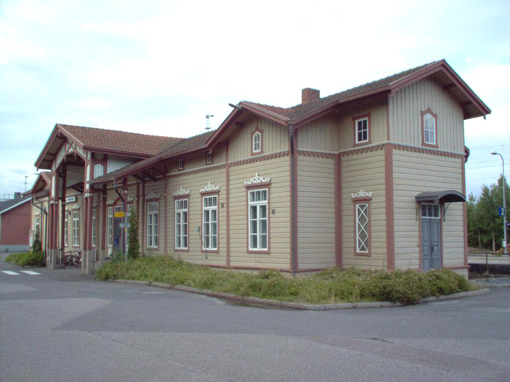 Loimaa railway station on the Tampere–Turku main line in Loimaa, Finland.